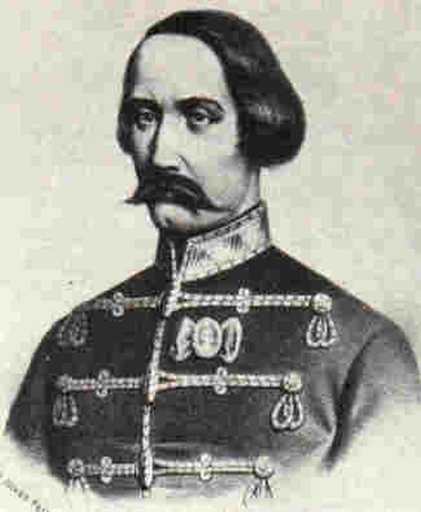 József Nagysándor, Hungarian general of the freedom fight against Austria in 1848-49